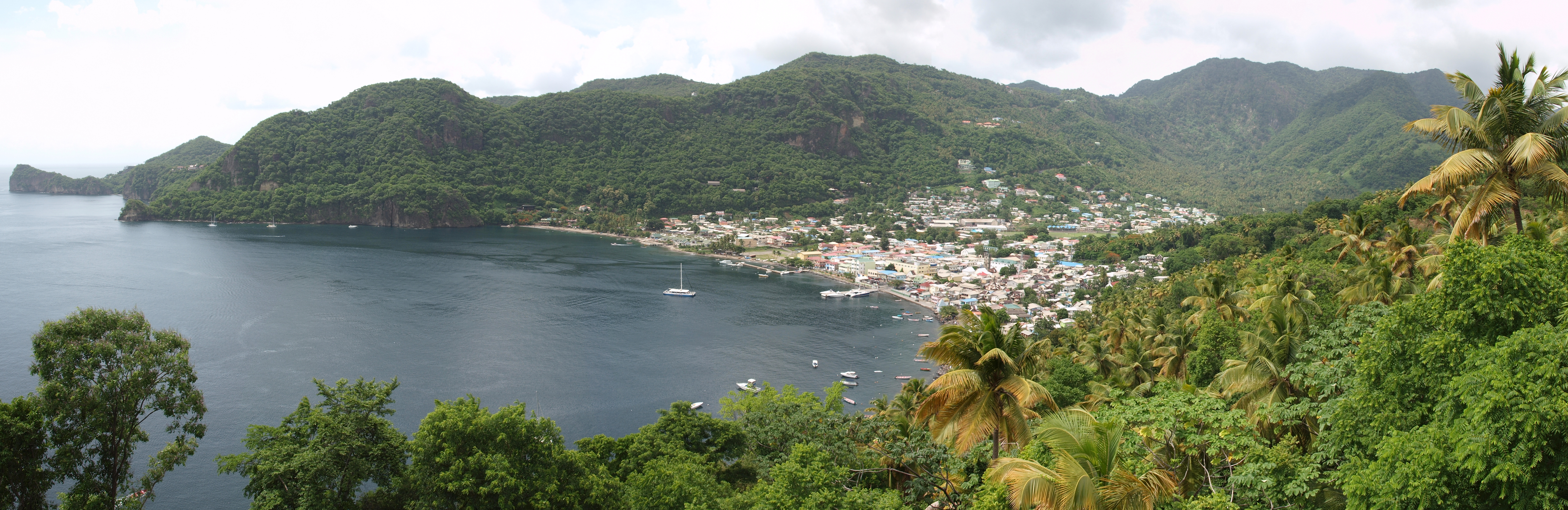 Soufriere as seen from the south.